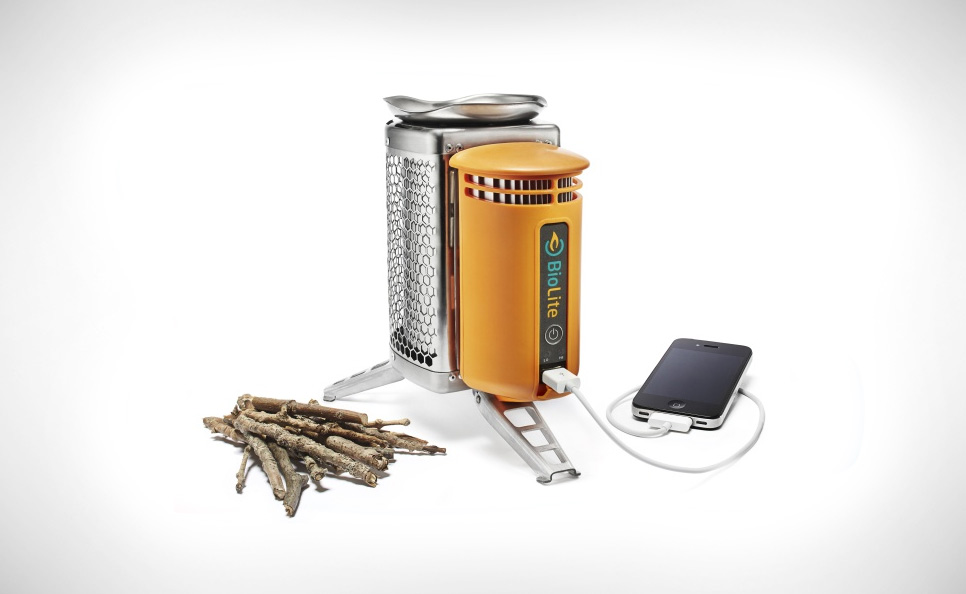 An image of the BioLite CampStove